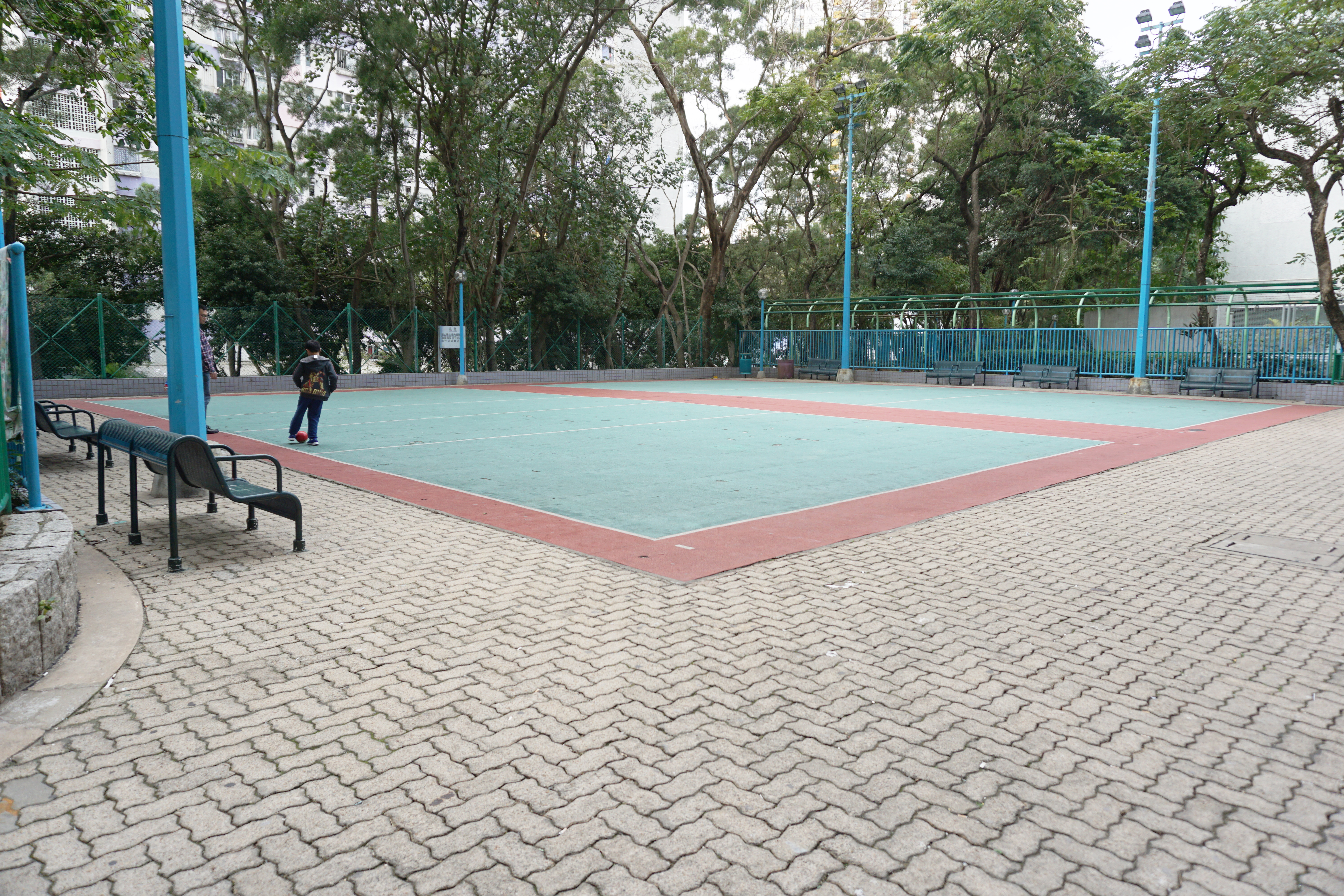 Pok Hong Estate in Sha Tin Wai, Hong Kong.